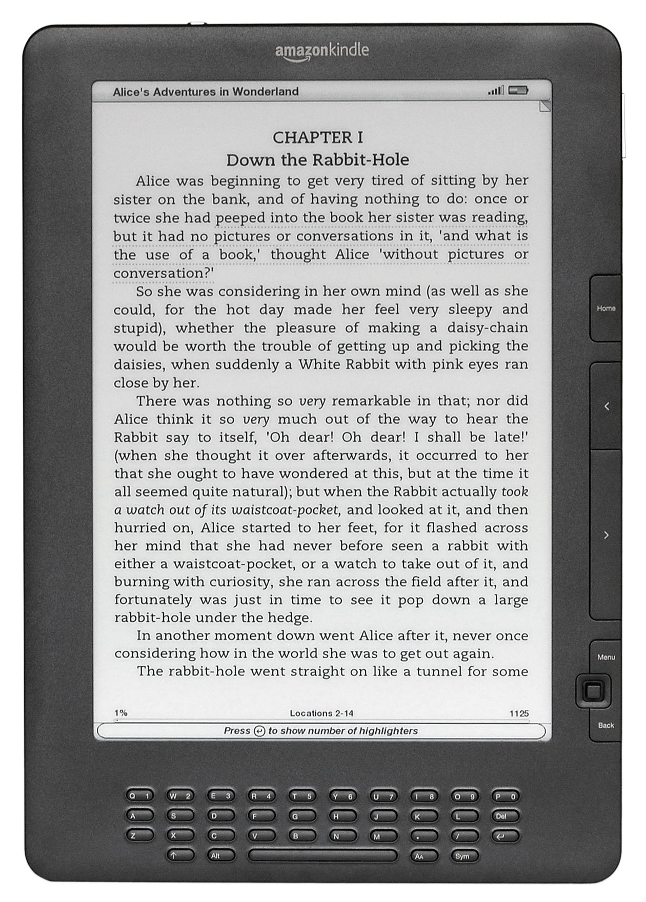 A Kindle DX Graphite by Amazon, showing the public domain book Alice's Adventures in Wonderland.